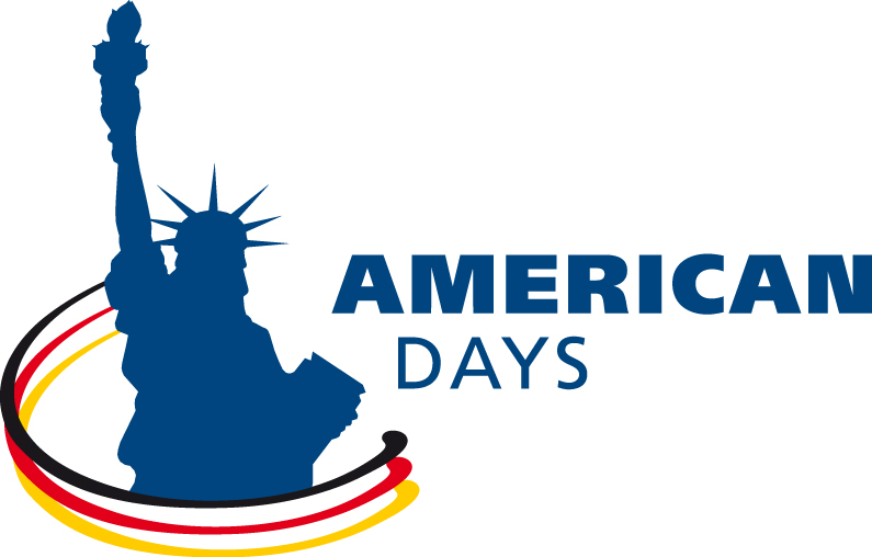 The American Days Logo